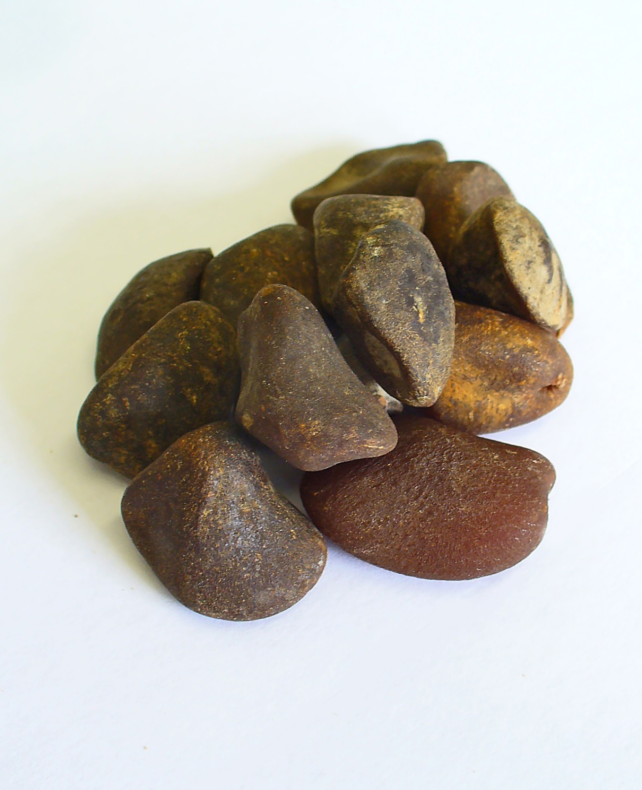 Strychnos ignatii, Ignatius bean, seeds; Private collection, therefore not geocoded.